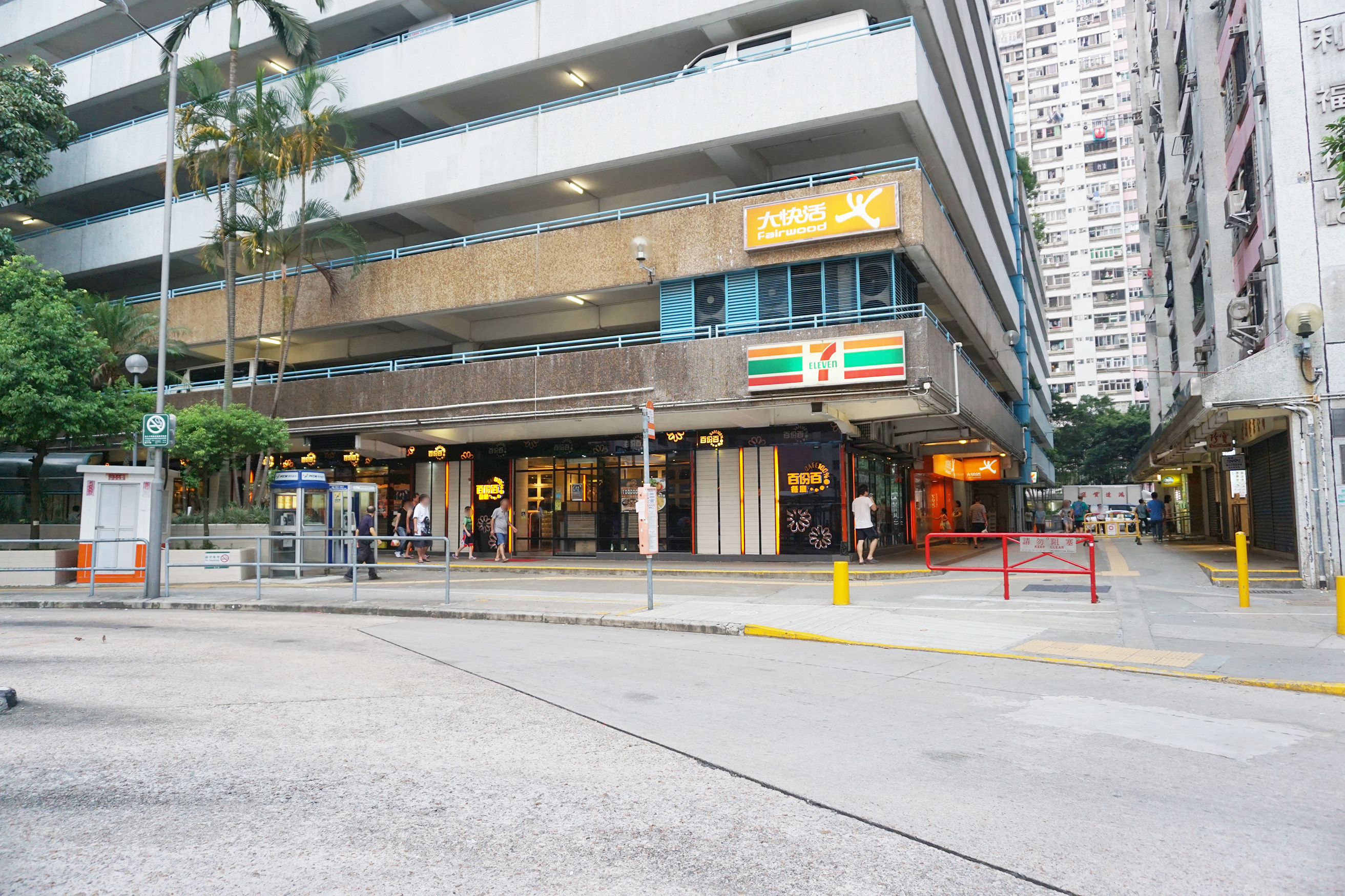 Ap Lei Chau Estate in Ap Lei Chau, Hong Kong.